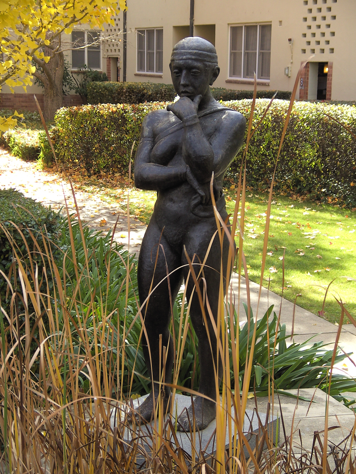 Bronze statue, Contemplation 1981-82, by artist Ante Dabro, in the courtyard of University House, Australian National University; a gift of the artist, 2004.